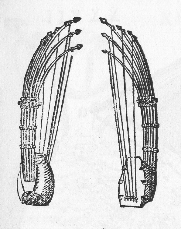 Depiction of pluriarc in the Syntagma Musicum of Michael Praetorius